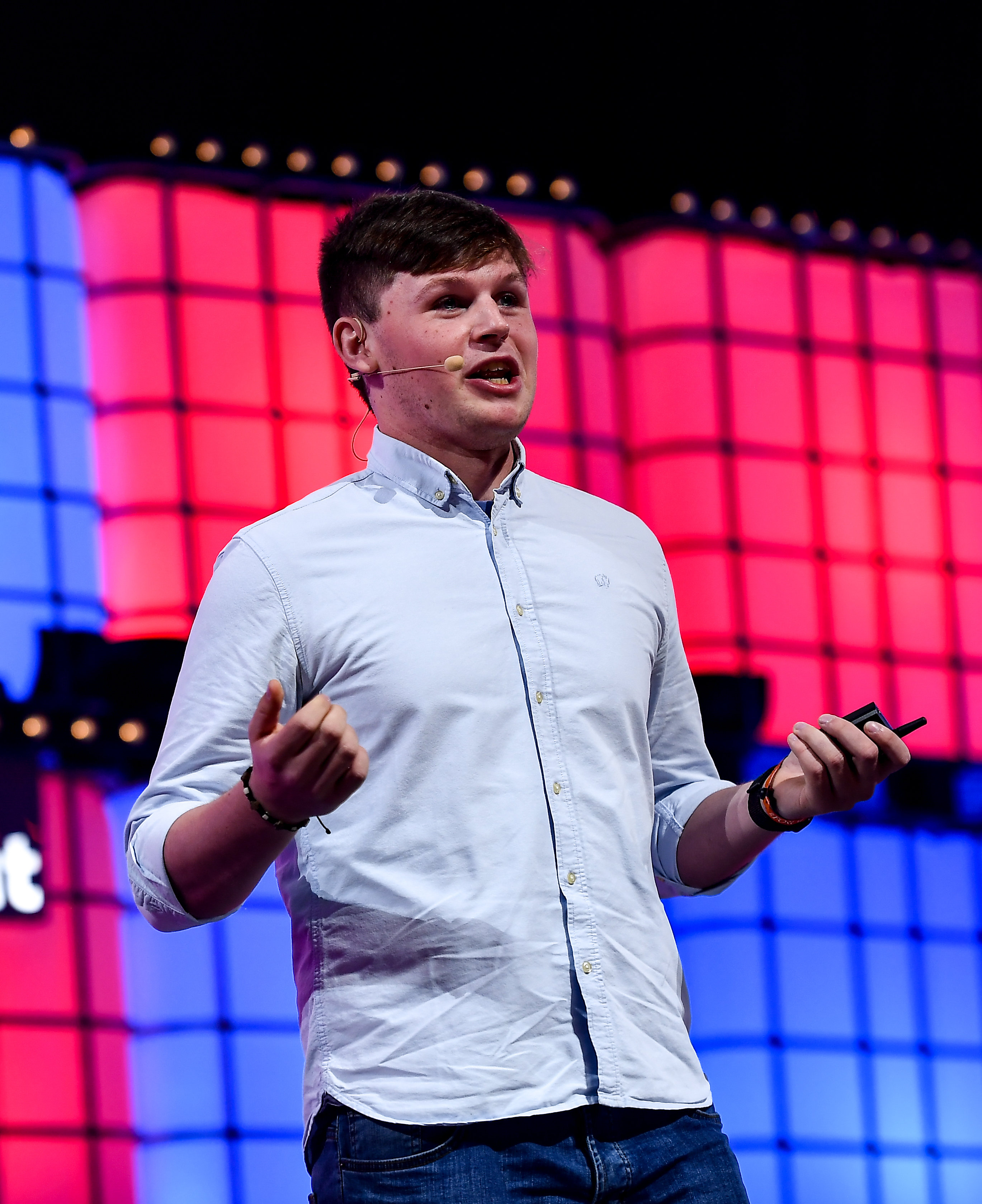 5 November 2019; Shane Curran, CEO, evervault, on Centre Stage during the opening day of Web Summit 2019 at the Altice Arena in Lisbon, Portugal. Photo by David Fitzgerald/Web Summit via Sportsfile